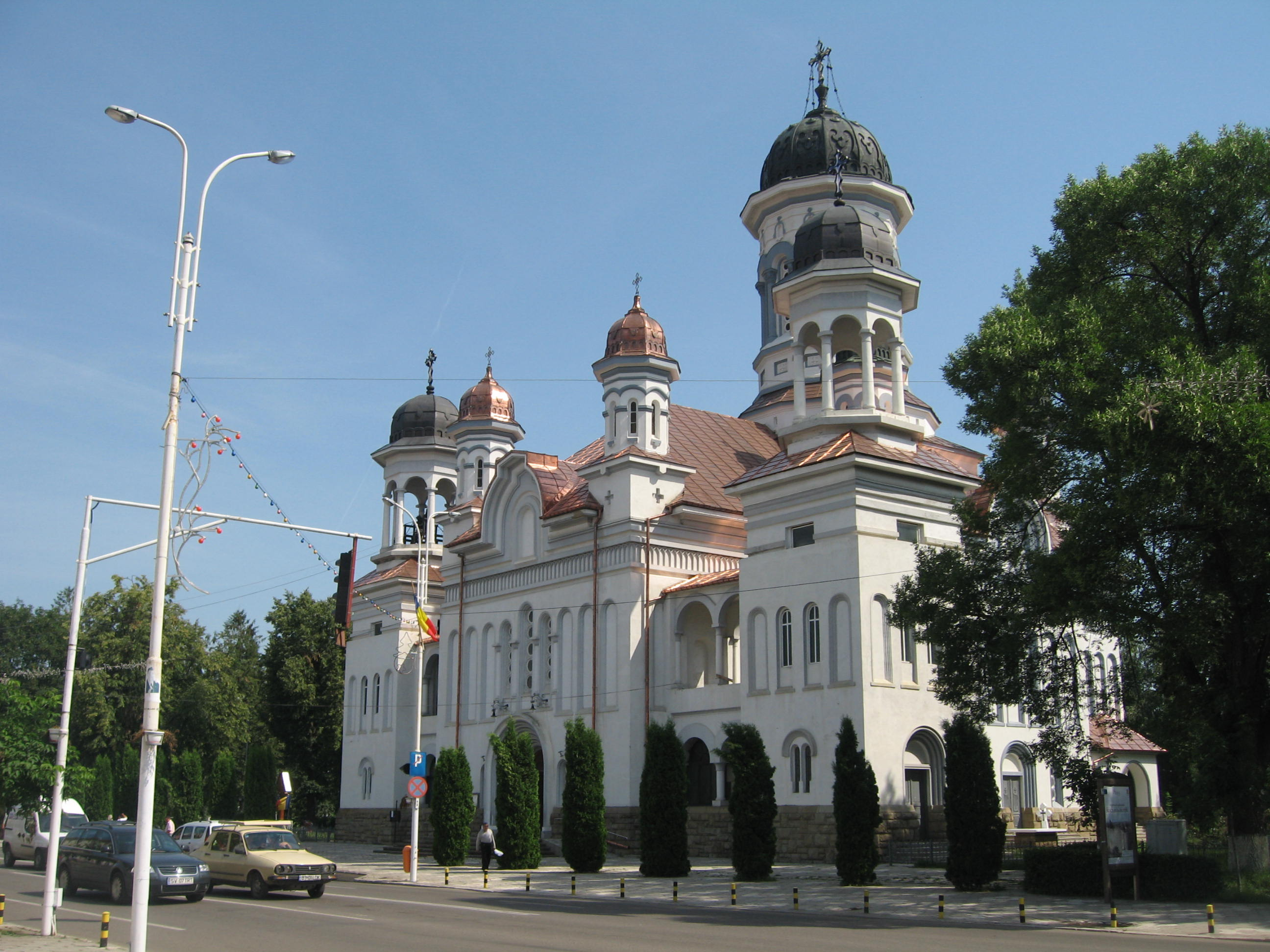 Catedrala din Rădăuţi